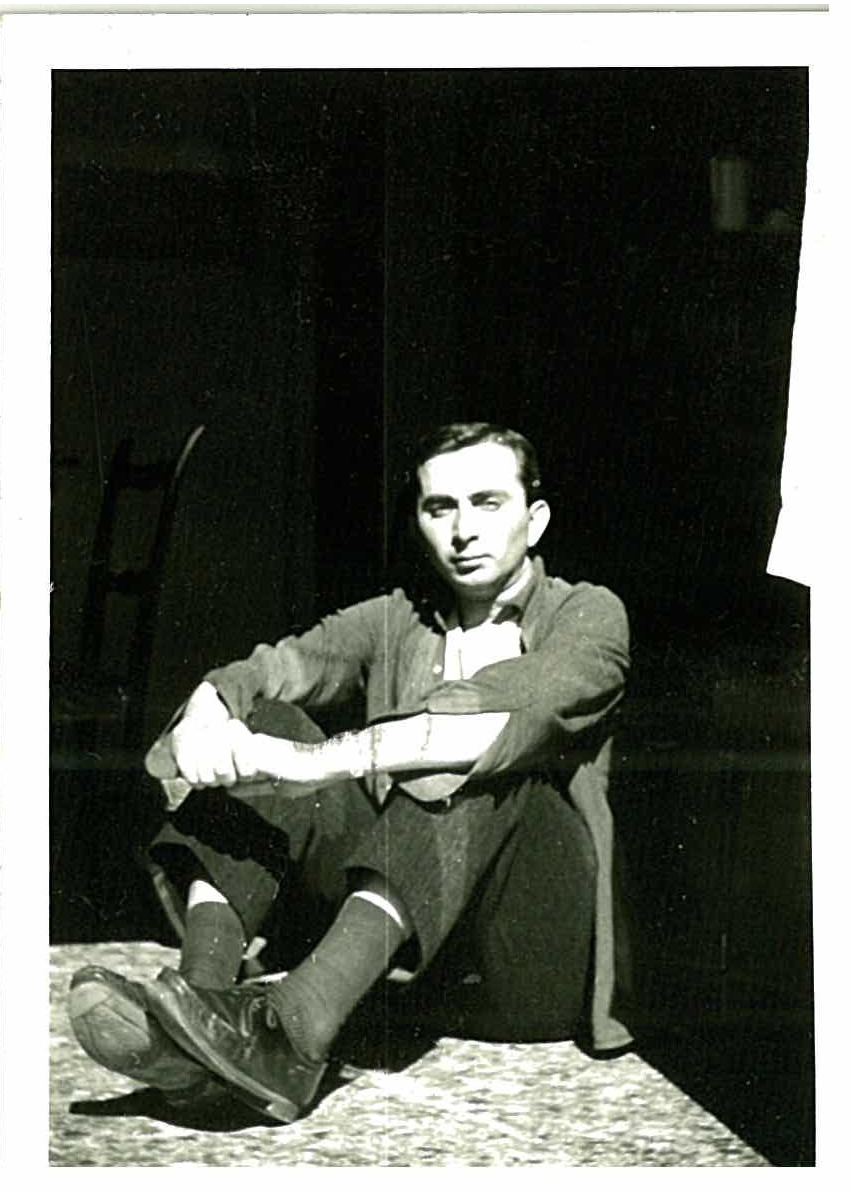 Ferdinando Falco da Giovane